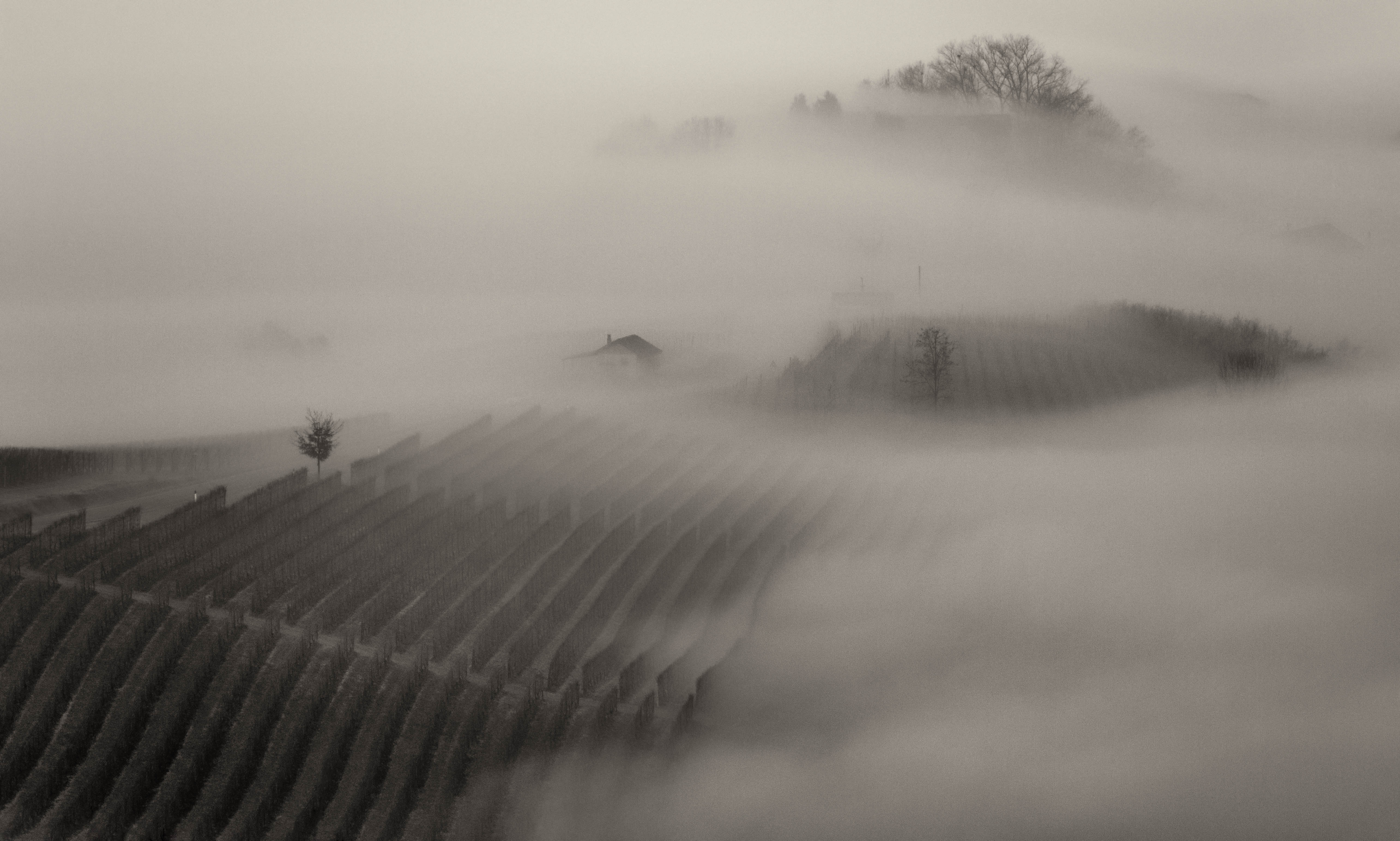 Taken somewhere along the road that links Monforte d'Alba to Barolo (Langhe). This is the area where some of Italian finest wines are made.